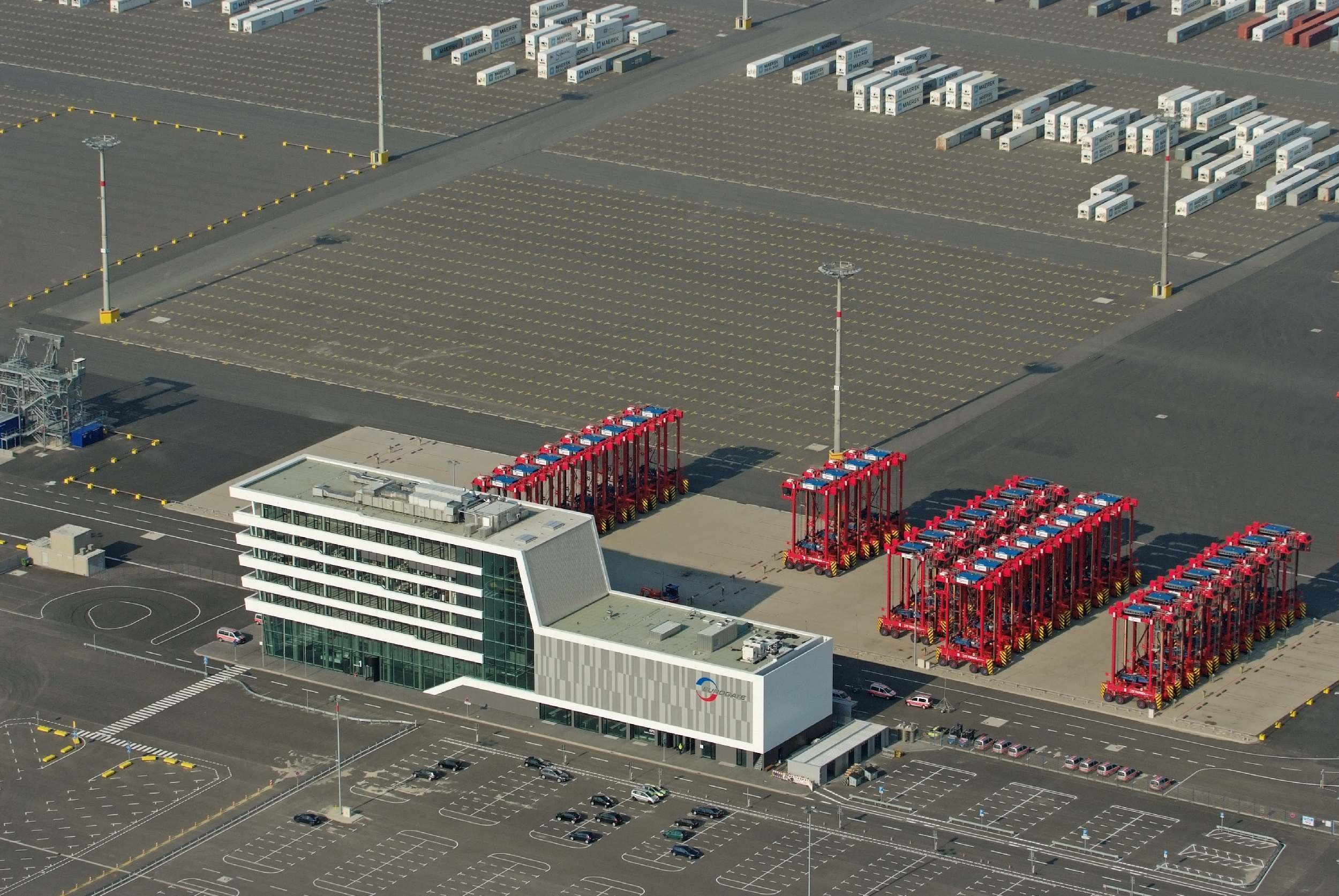 Office building of Eurogate at JadeWeserPort in Wilhelmshaven, Germany.